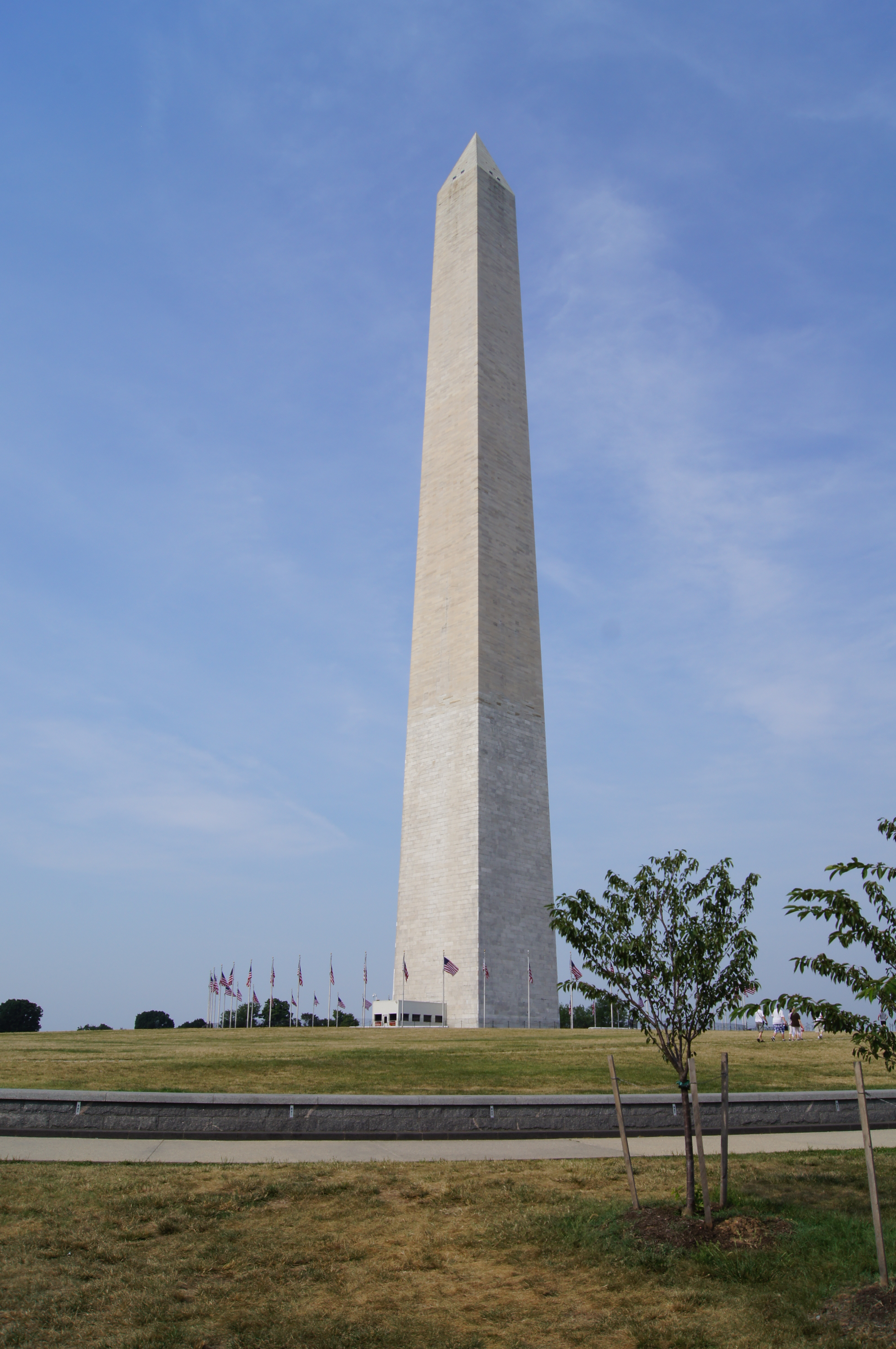 Building in Washington, D. C., United States